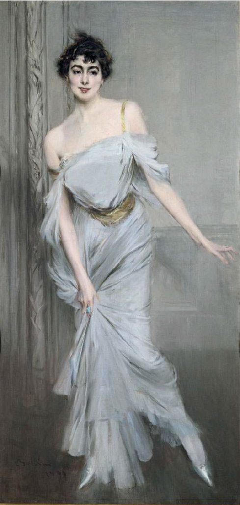 Madame Max